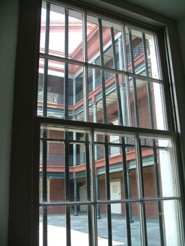 Copyright (c) 2005 Peter Clericuzio. Permission is granted to copy, distribute and/or modify this document under the terms of the GNU Free Documentation License, Version 1.2 or any later version published by the Free Software Foundation; with no Invariant Sections, no Front-Cover Texts, and no Back-Cover Texts. A copy of the license is included in the section entitled "GNU Free Documentation License". Photo taken by Peter Clericuzio, 22 June 2005, using a Fuji FinePix S5000 digital camera.